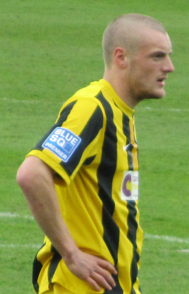 Jamie Vardy